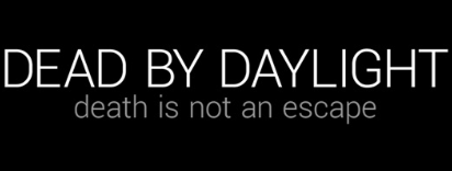 Dead by Daylight Logo - only font